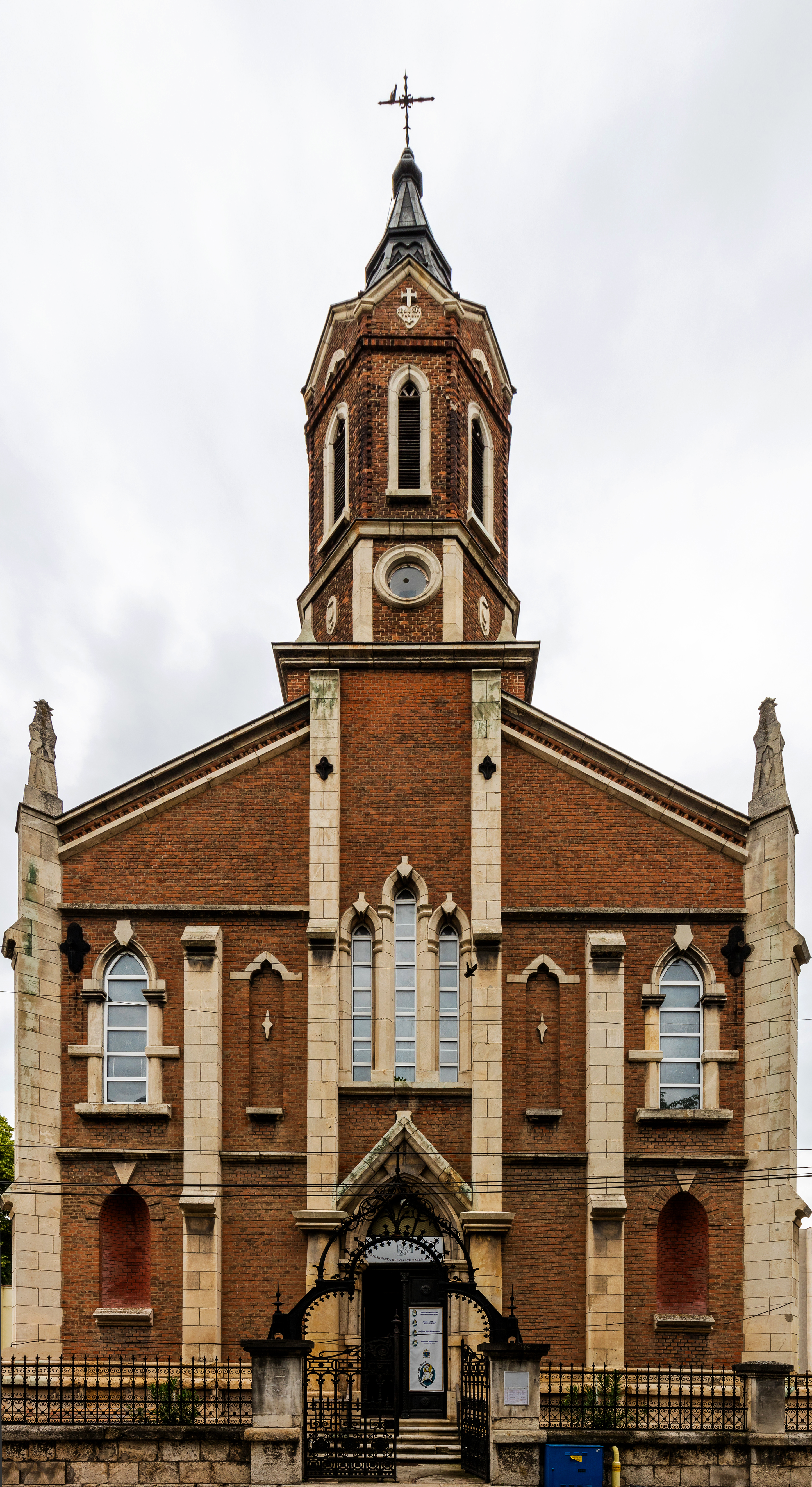 This file was derived from: Catedral de San Pablo de la Cruz, Ruse, Bulgaria, 2016-05-27, DD 07.jpg Attribution: Diego Delso